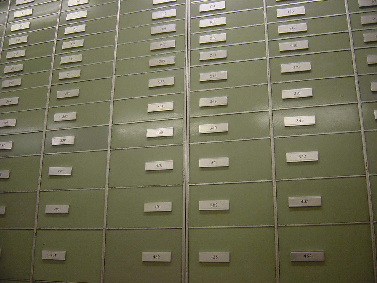 Safe deposit boxes inside the vaults of a Swiss bank.